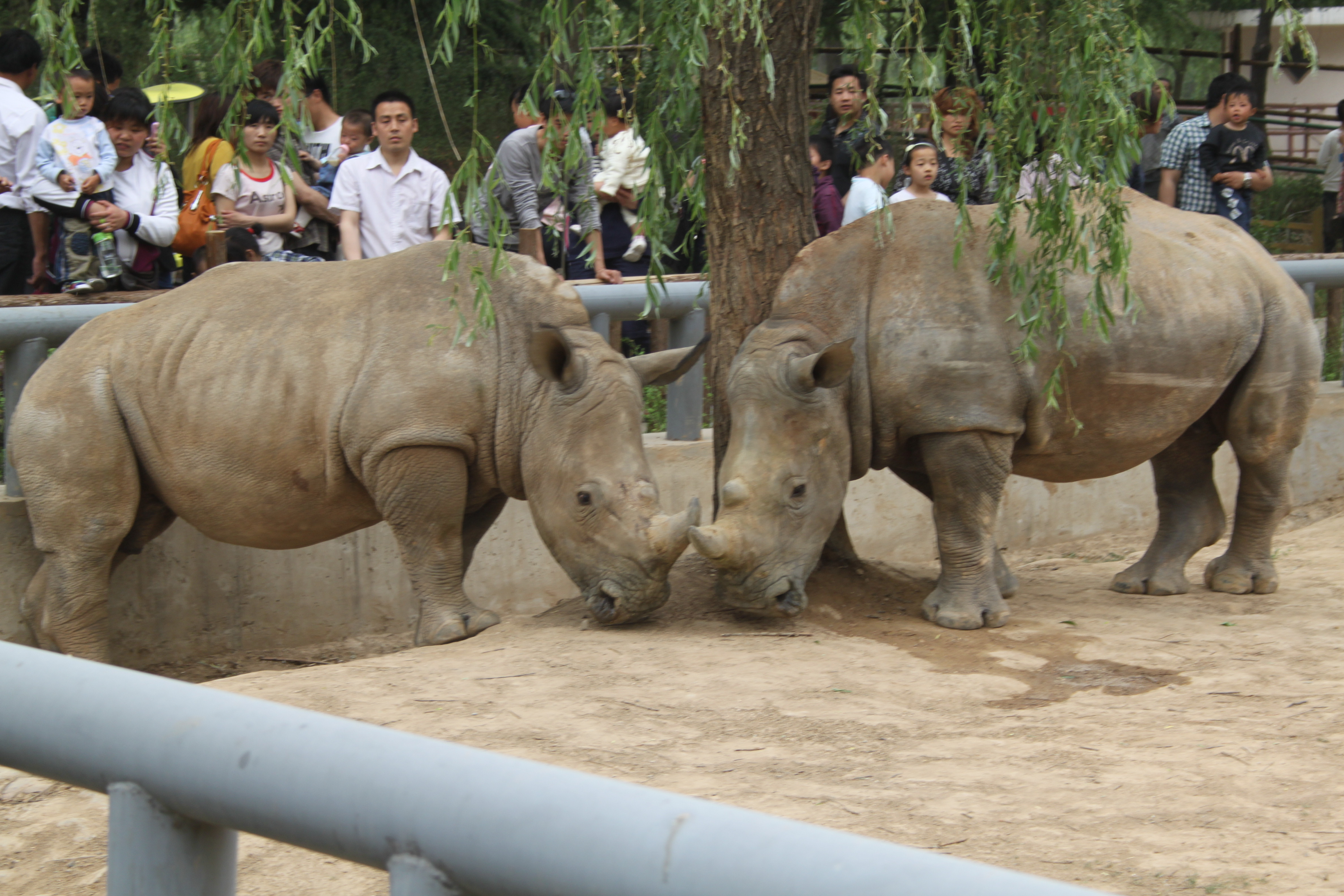 Zhengzhou, Henan. Complete indexed photo collection at .